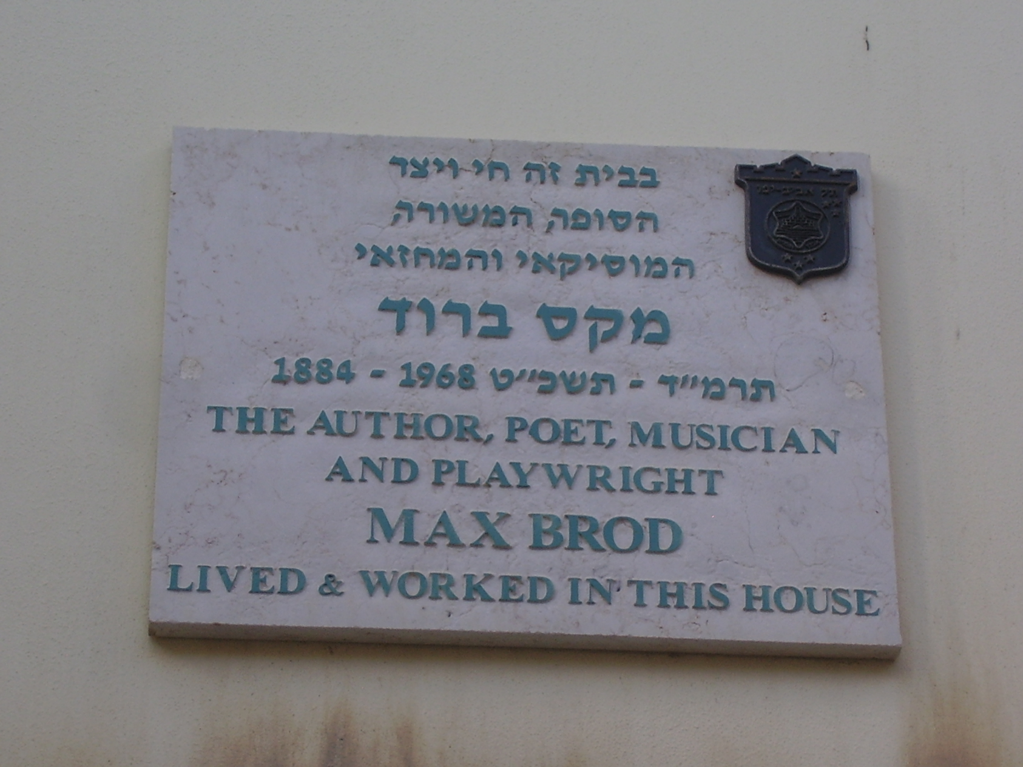 memorial plaque to max brod in tel aviv לוחית זיכרון על ביתו של מקס ברוד ברח' הירדן 16 בתל אביב